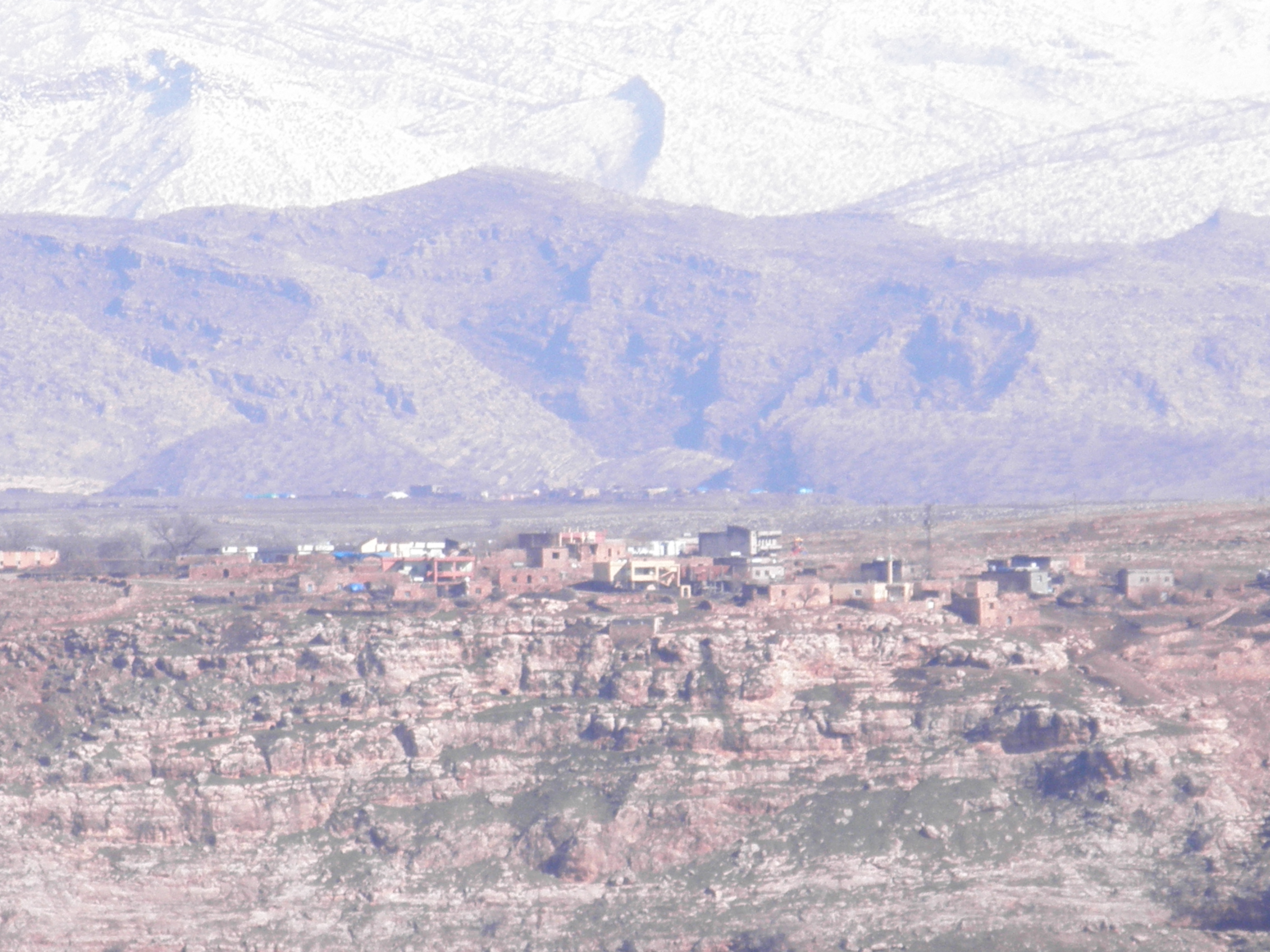 Kurdish village Damlabaşı, Güçlükonak (Dilopkê), Güçlükonak, Turkey. Kurdî: Xuyakirina gundê Dilopkê ji gundê Dîlan.